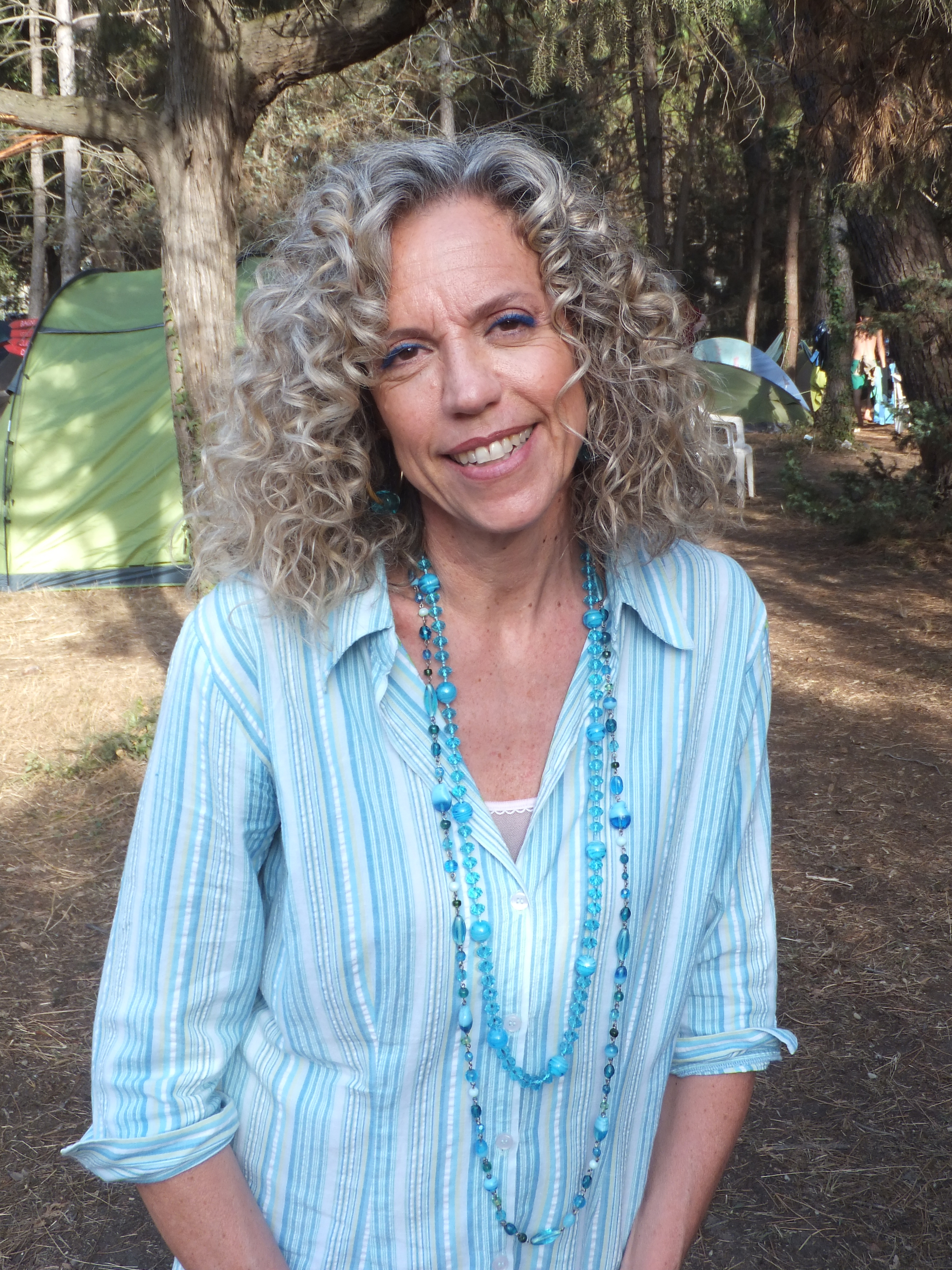 Monica Cirinnà after a debate at Revolution Camp 2016, Marina di Massa